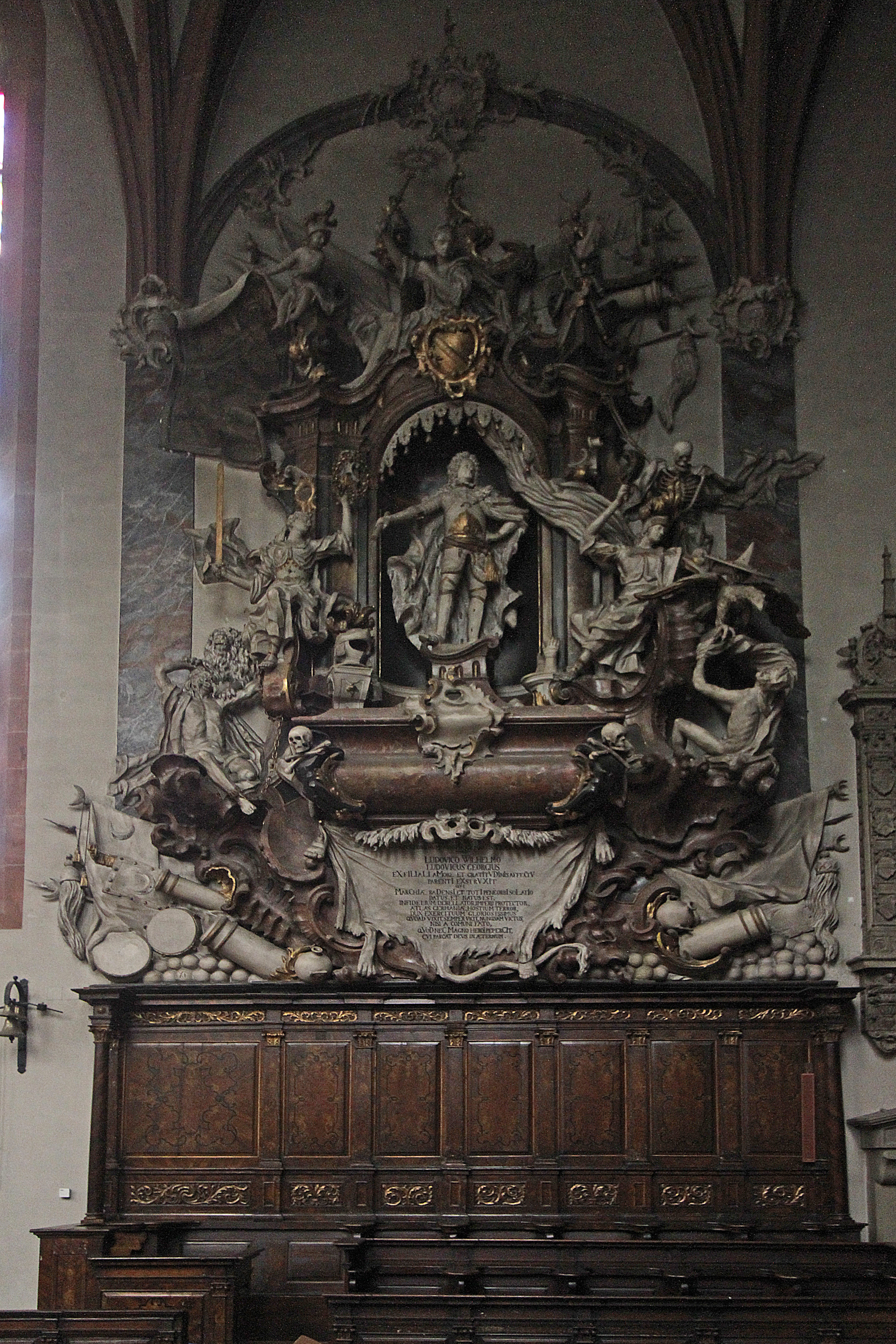 Epitaph of Margrave Louis William in the Stiftskirche Baden-Baden.